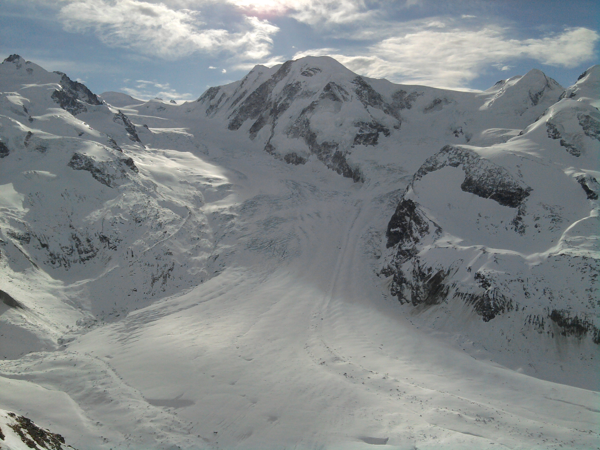 Liskamm 4527 m